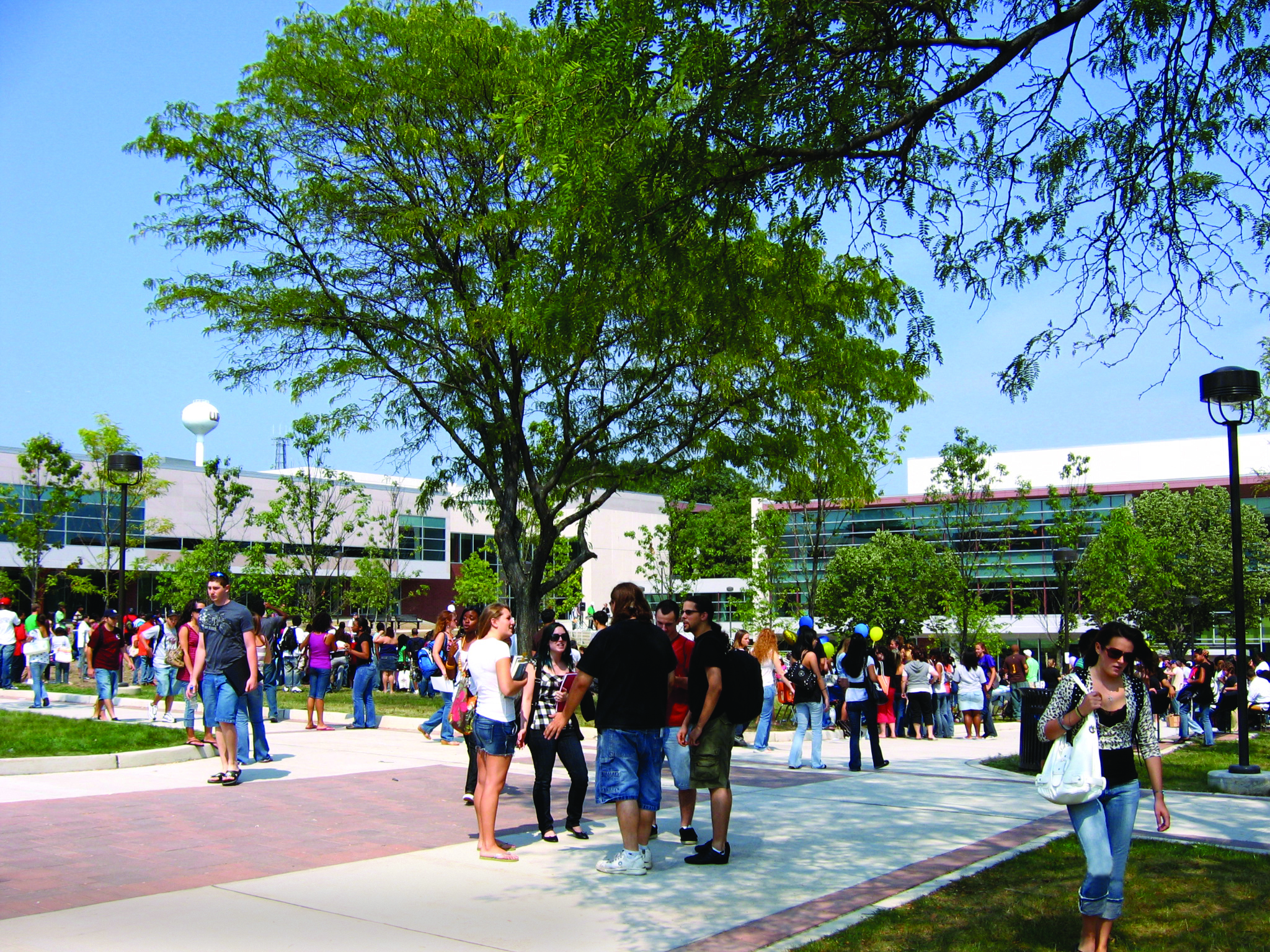 William Paterson's University Commons includes the expanded and renovated John Victor Machuga Student Center and Wayne Hall.